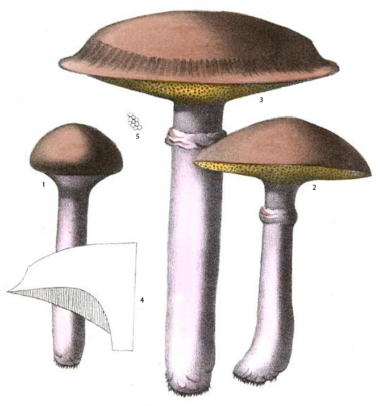 Original drawing of Boletus clintonianus Peck (=Suillus clintonianus)